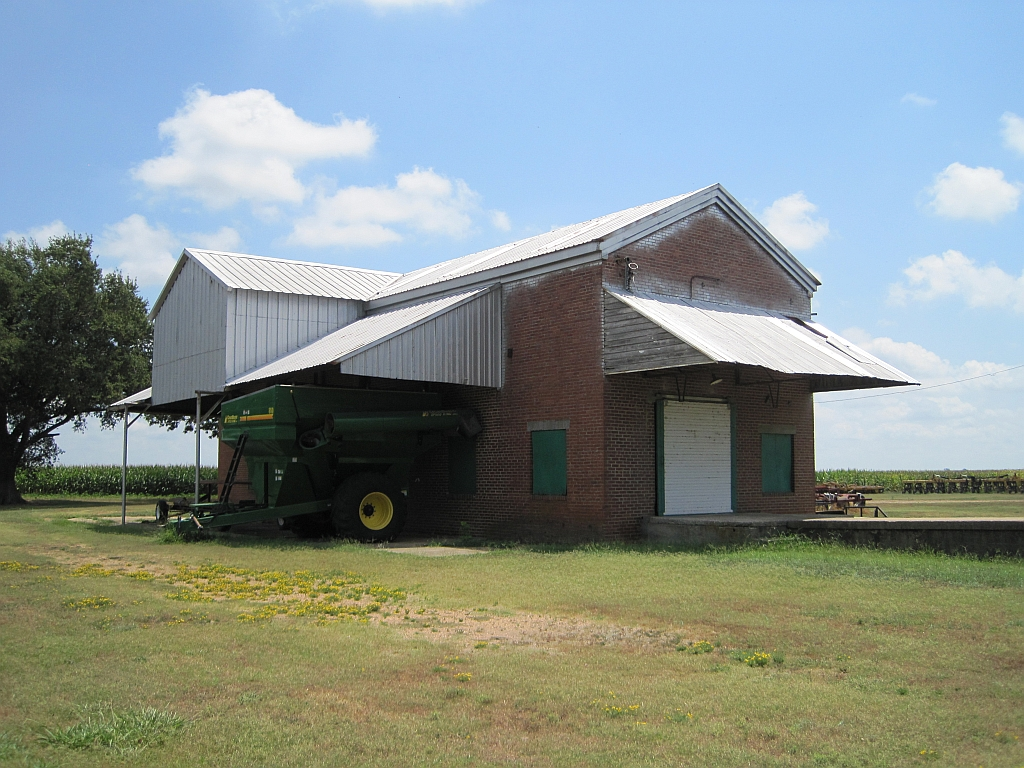 Judd Hill Plantation (or Old Tulot Plantation) in Poinsett County, Arkansas